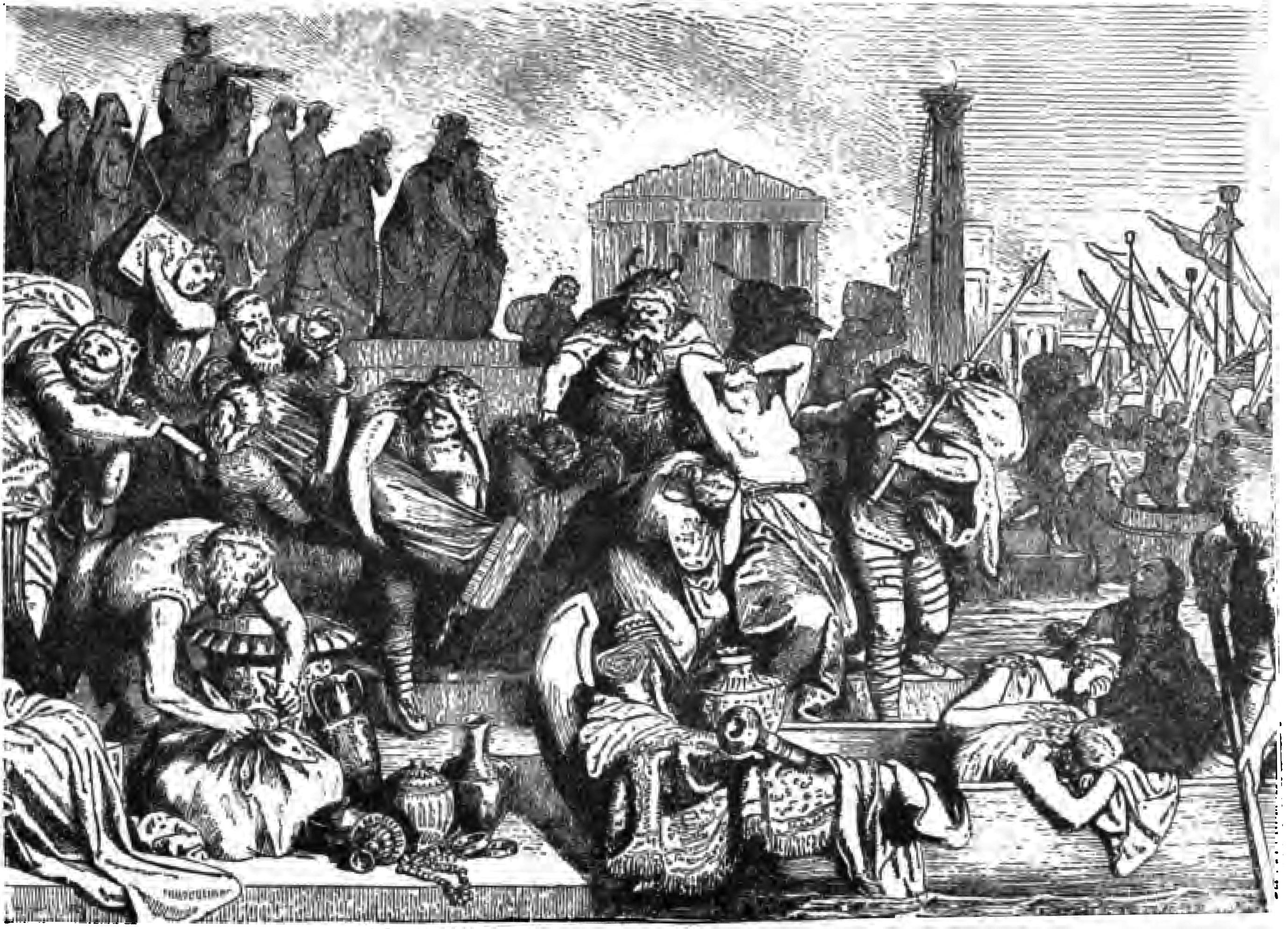 Captioned as "Vandals plundering".